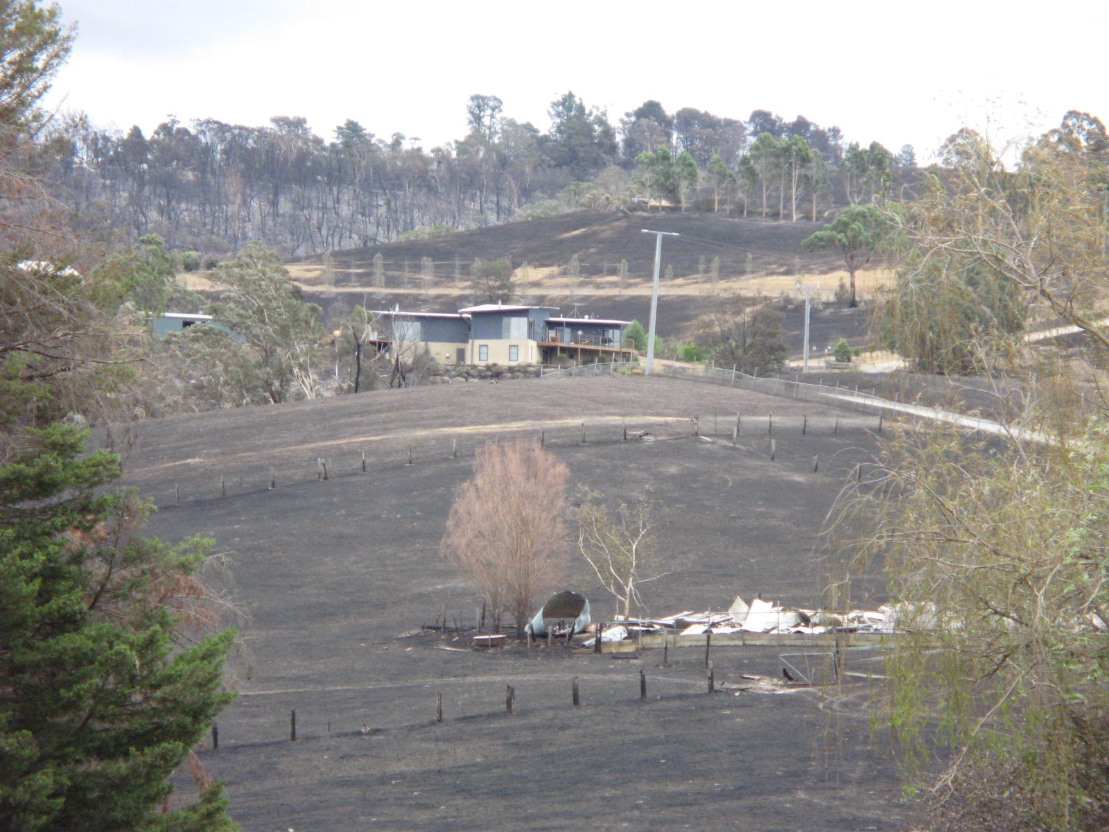 Bushfire damage to property just north of Yarra Glen. Photo taken by myself with verbal permission from the property owner, 10th of February, 2009.